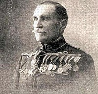 Ambrózy Béla (1839–1911) Hungarian politician and apiarist